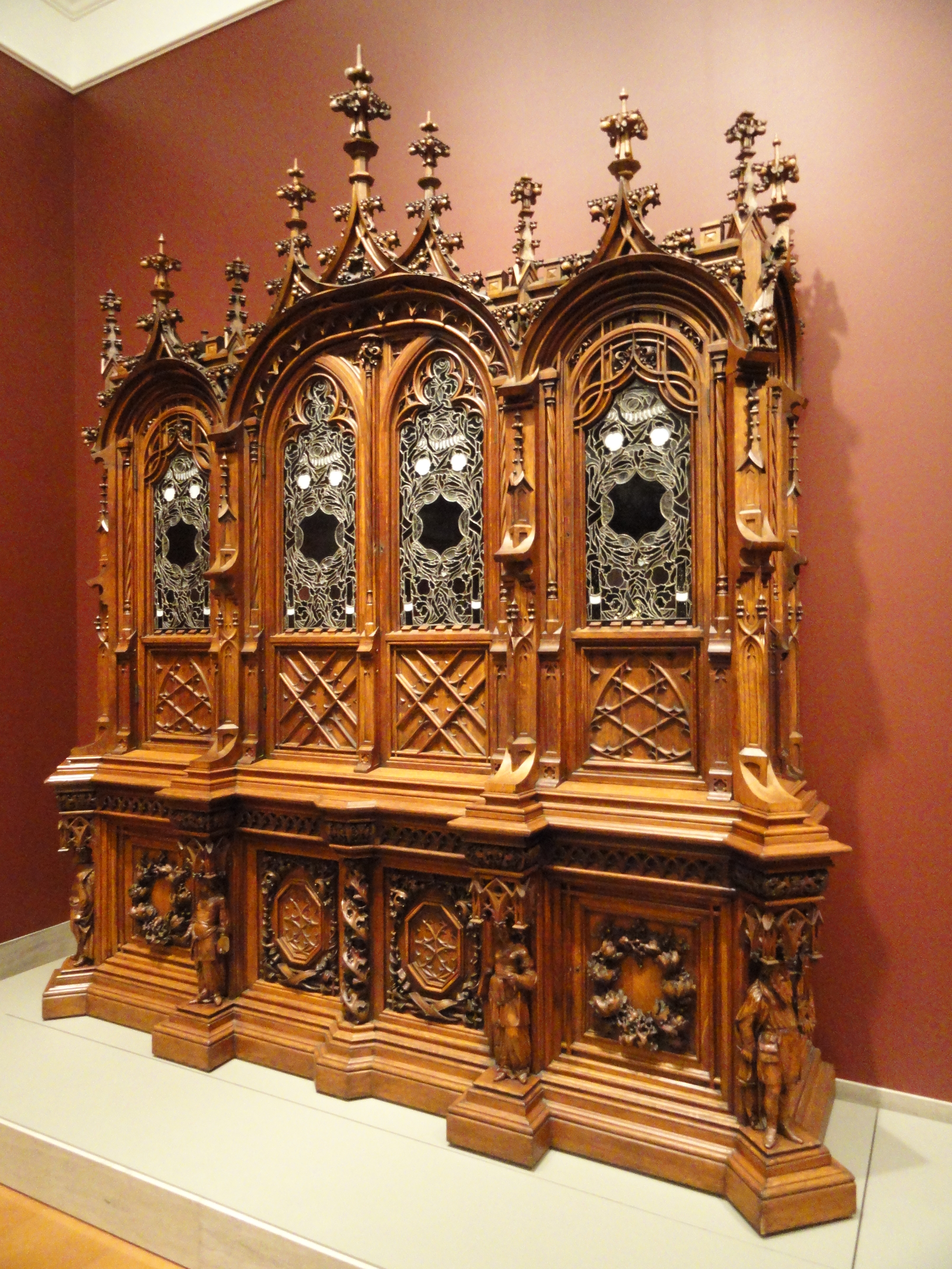 Exhibit in the Nelson-Atkins Museum of Art, Kansas City, Missouri. This artwork is old enough so that it is in the public domain, and the museum permitted photography without restriction. I took this photograph and release it into the public domain.